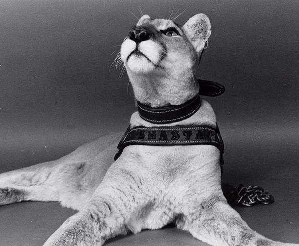 Shasta III, the official live mascot of the University of Houston from 1965-1977.